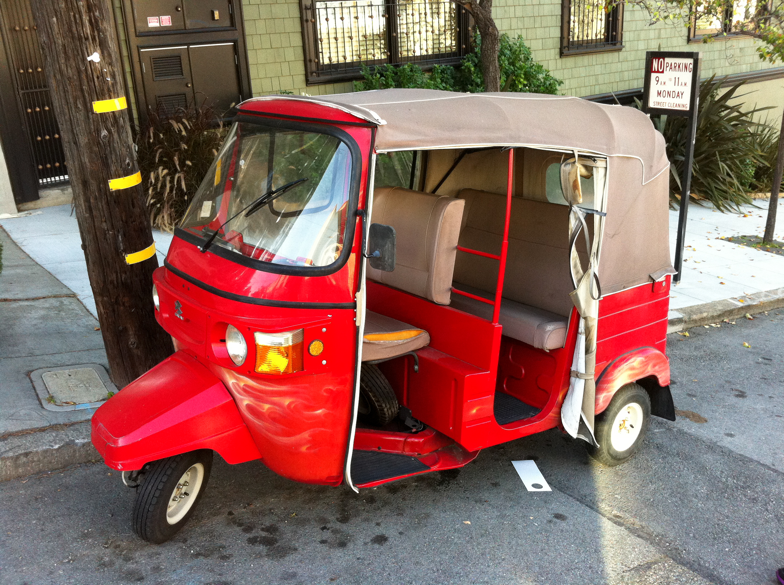 Bajaj Auto Rickshaw in San Francisco